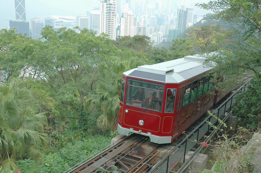 Peak Tramway. at Victoria Peak, Hong Kong., Central and Western District.